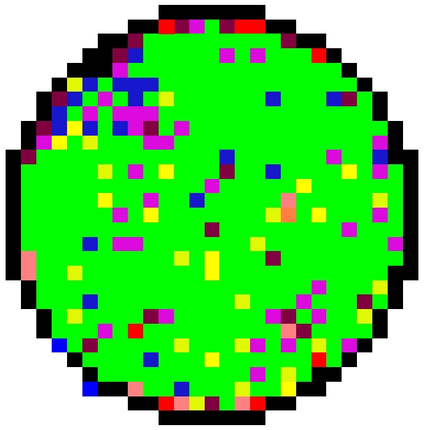 This picture has been created by Andre van de Geijn, by making use of GIMP. It represents a random generated wafermap of a fictive product.